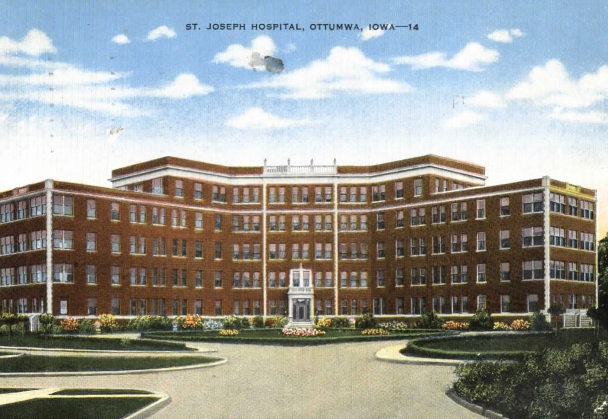 Post Card Image of St. Joseph Hospital, Ottumwa, Iowa